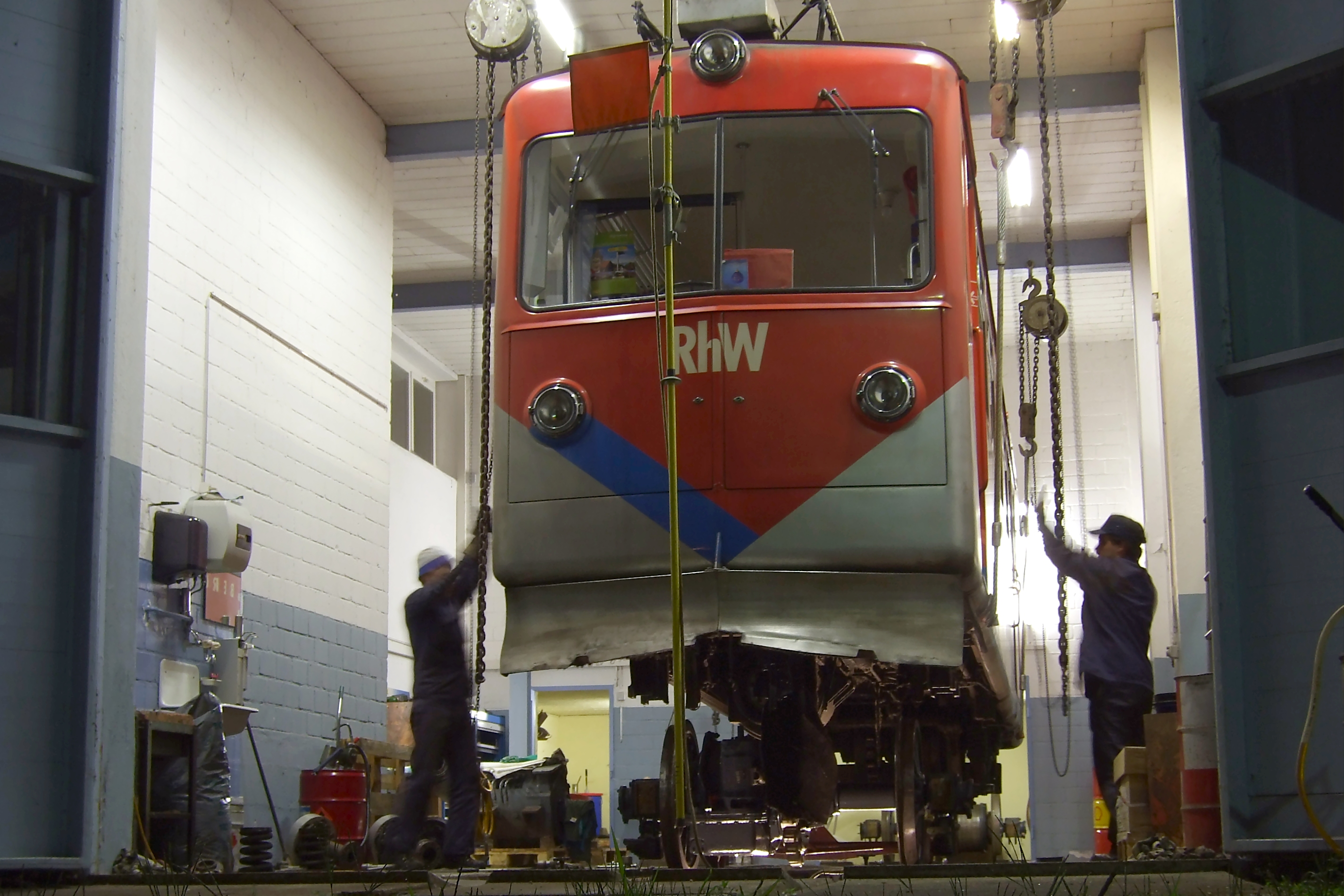 The cogwheel gearing at the front axle of the mountain railway Rheineck-Walzenhausen is defective. In one evening it's replaced by a new one. The last courses in this evening are driven with a bus.